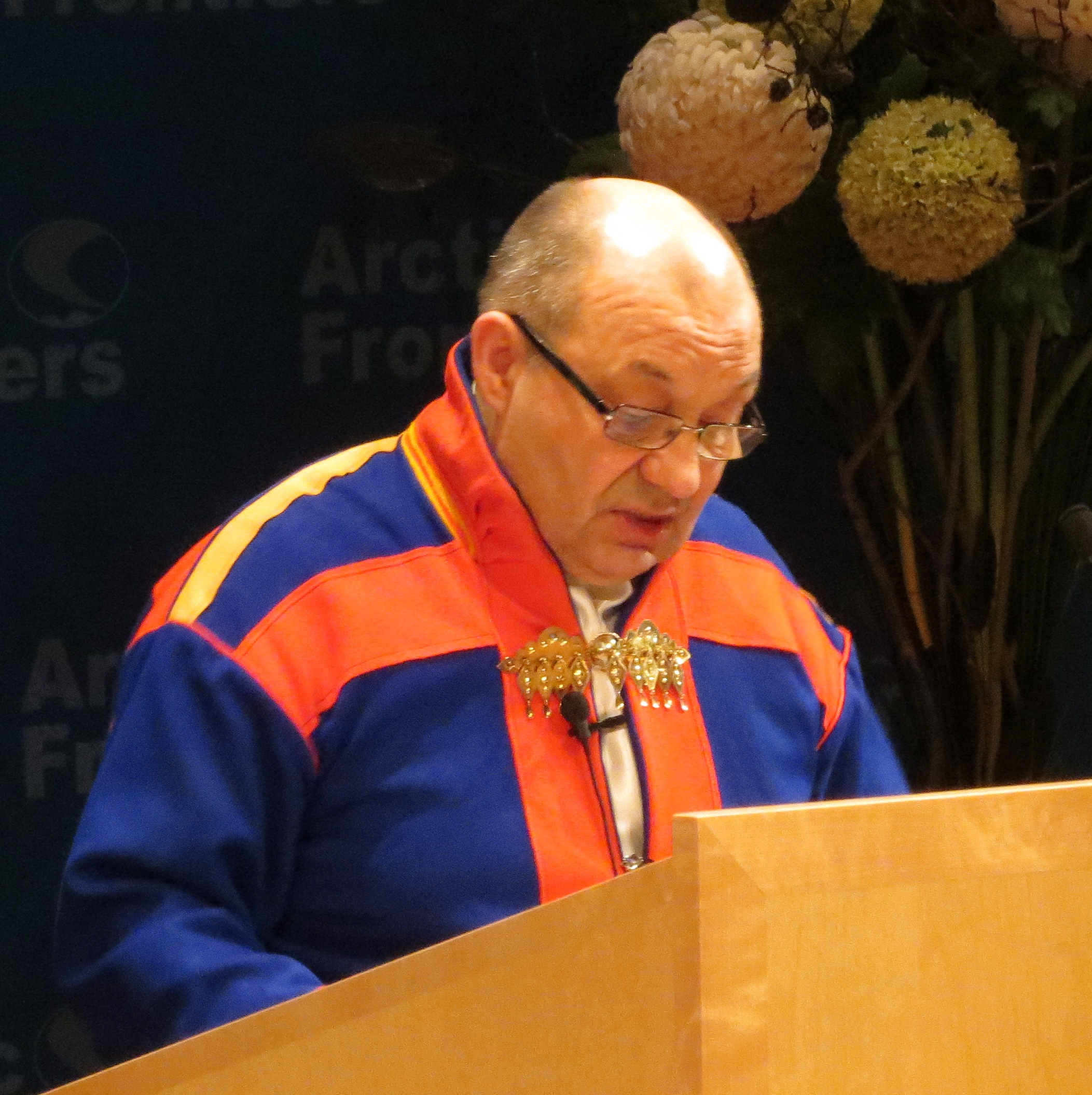 Egil Olli, speaking in the capacity of chairman of the Arctic Council, at the Arctic Frontiers conferense in Tromsø, January 21, 2012. Egil Olli is at this time the president of the Saami Thing (Sametinget), the supreme political body of the Saami population of Norway.